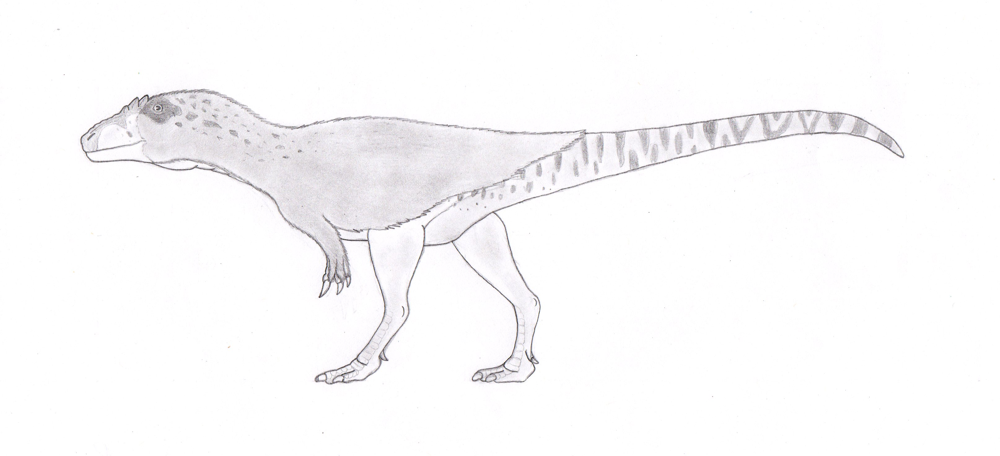 Bahariasaurus ingens like megaraptora